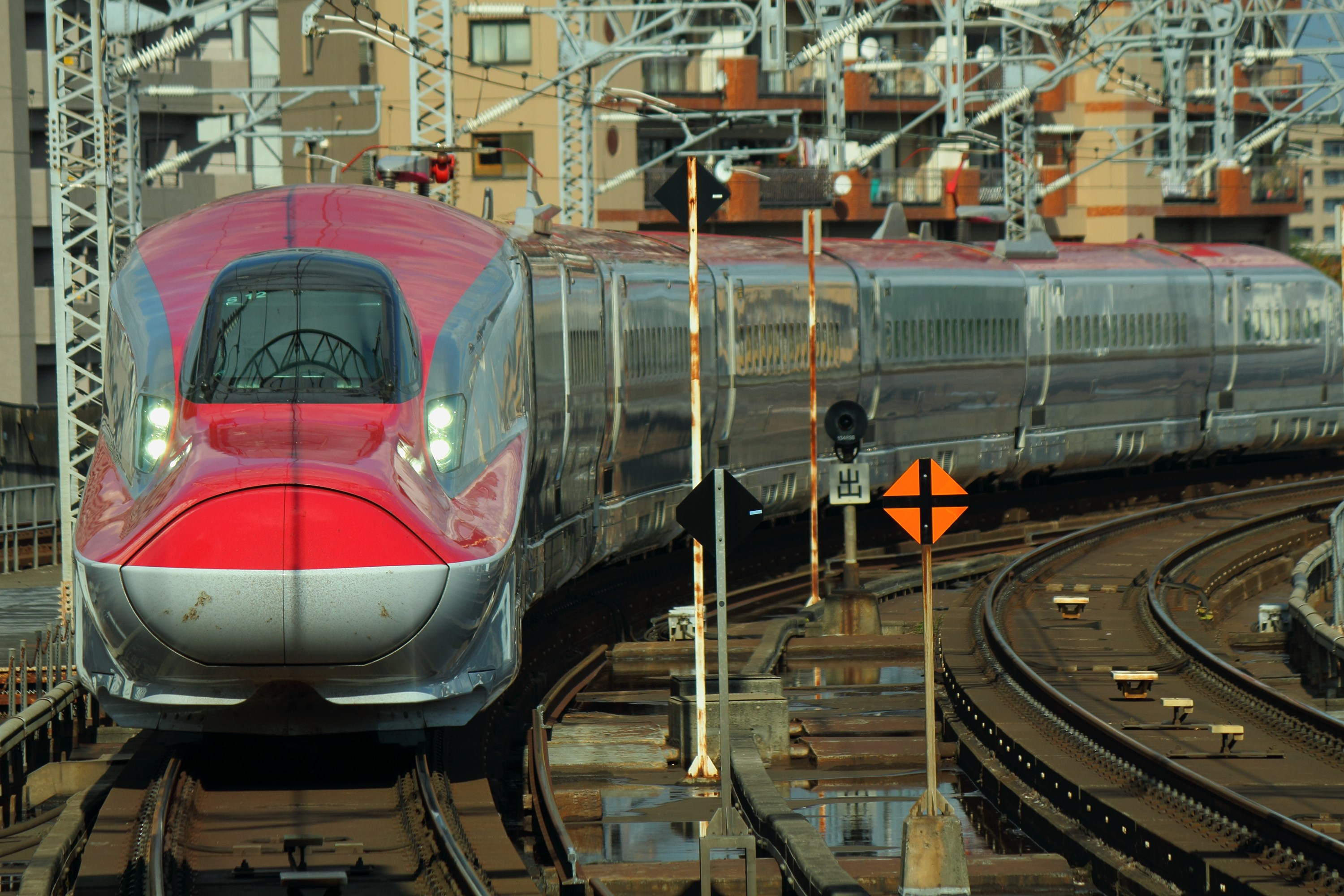 JR East E6 series pre-production shinkansen set S12 at Sendai Station on a test run